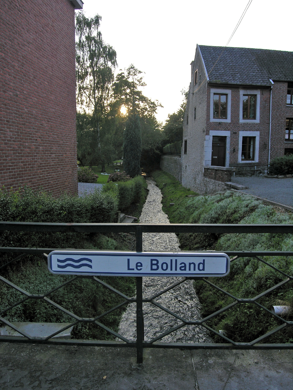 The river Bolland at the village Bolland